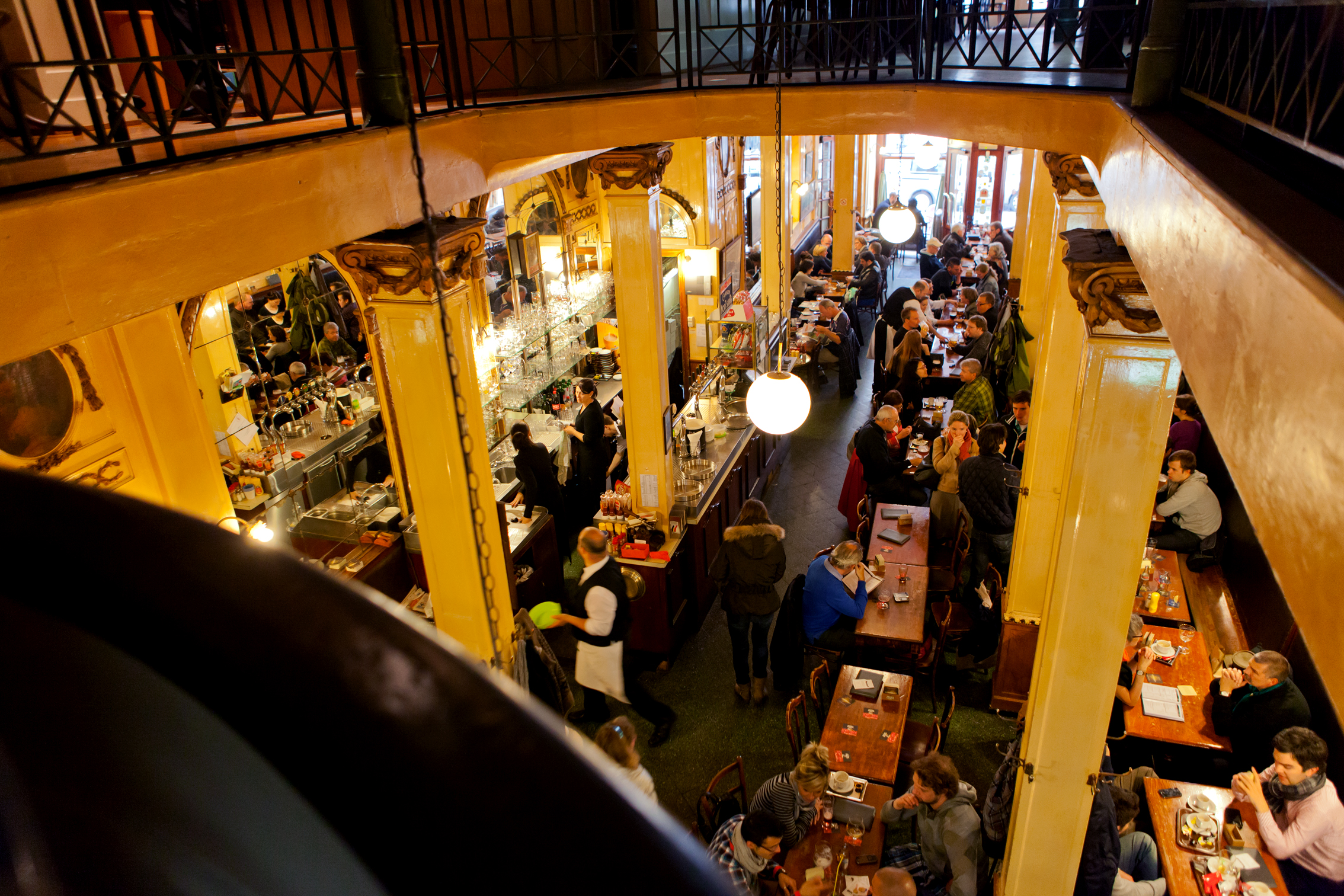 Brussels - Café Mort Subite - Interior view